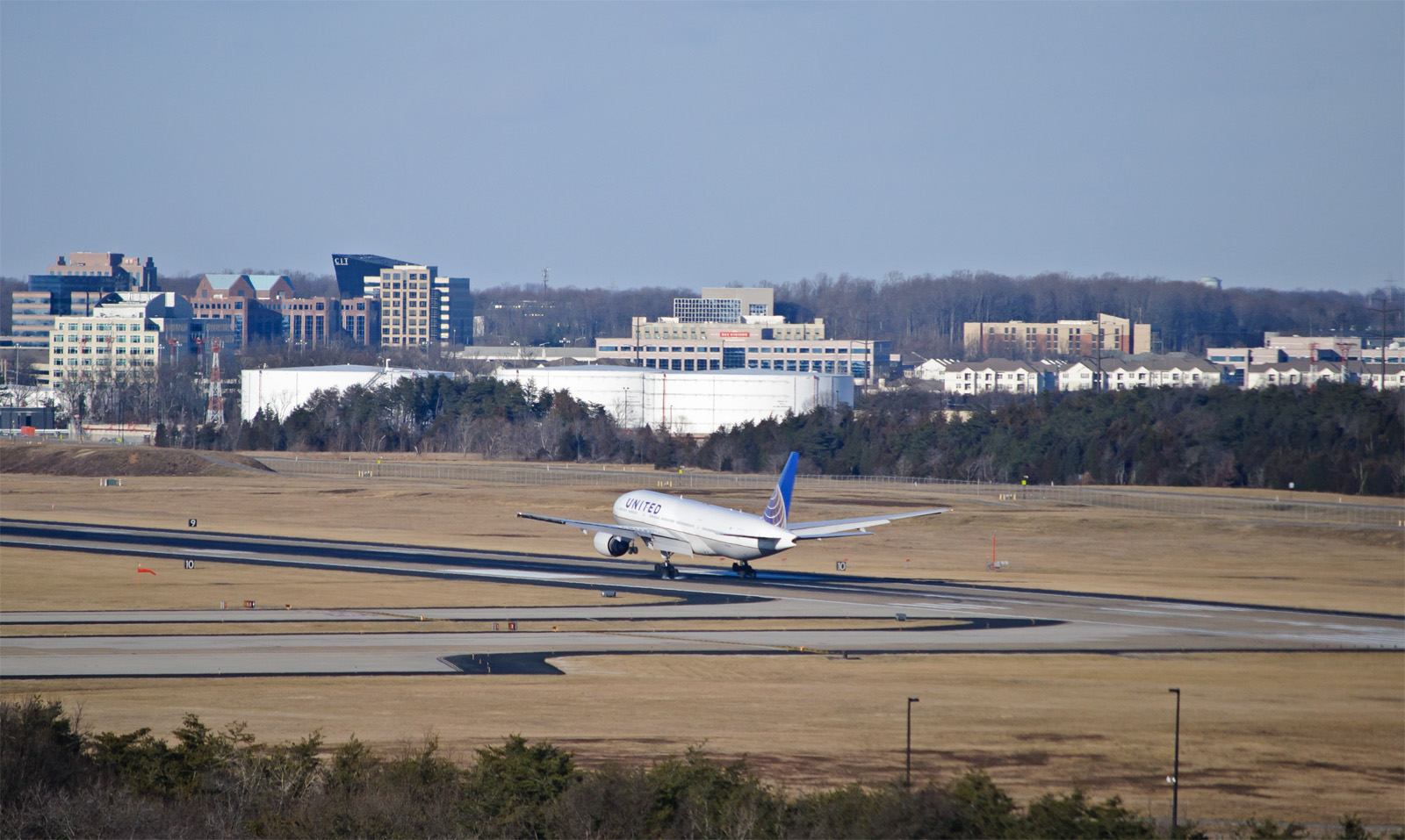 I am visiting the Udvar-Hazy Center, the annex for Smithsonian National Air and Space Museum located on the grounds of Dulles Airport. It is also an excellent place for planespotting - especially for aircraft landing on 1R. Due to the bitter cold outside, this photo was taken inside the museum's tower, so there is a bit of loss in picture quality. This very early-build Boeing 777, serial number 27 built in 1996, arrives from London Heathrow as United 919 and touches down on Runway 1R. Dulles has been a United hub since 1985, and it emerged as United's gateway to Europe in the 1990s. Even with the Continental merger giving United an even bigger gateway in Newark, Dulles remains very important for United transatlantic services. One of my favorite air travel memories, from way back in 1999, involved wrapping up a nightmare week in the Netherlands, and hopping on a United flight to Dulles; United has been my favorite airline ever since. N776UA, Boeing 777-200